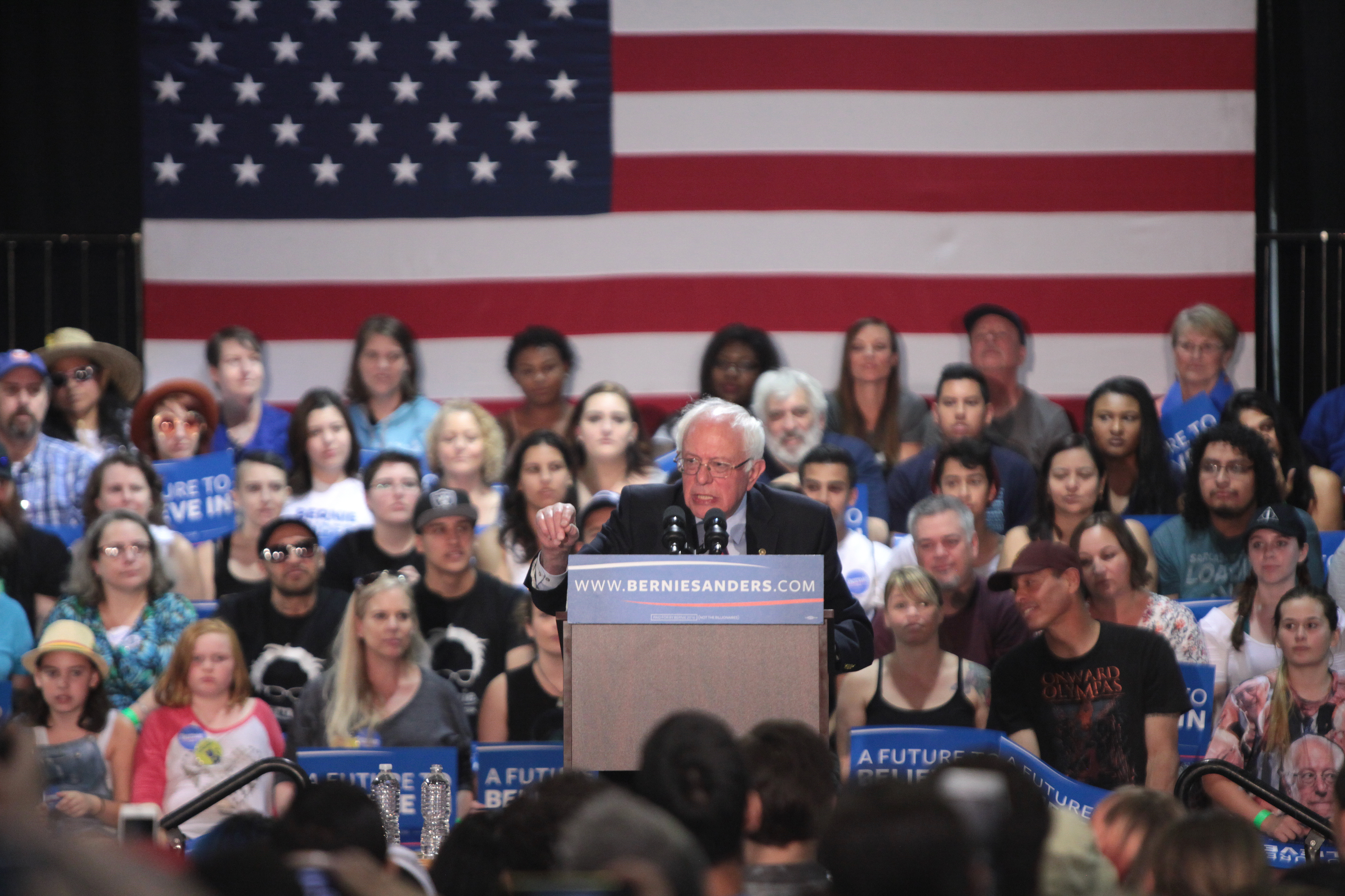 U.S. Senator Bernie Sanders speaking with supporters at the Agriculture Center at the Arizona State Fairgrounds in Phoenix, Arizona.